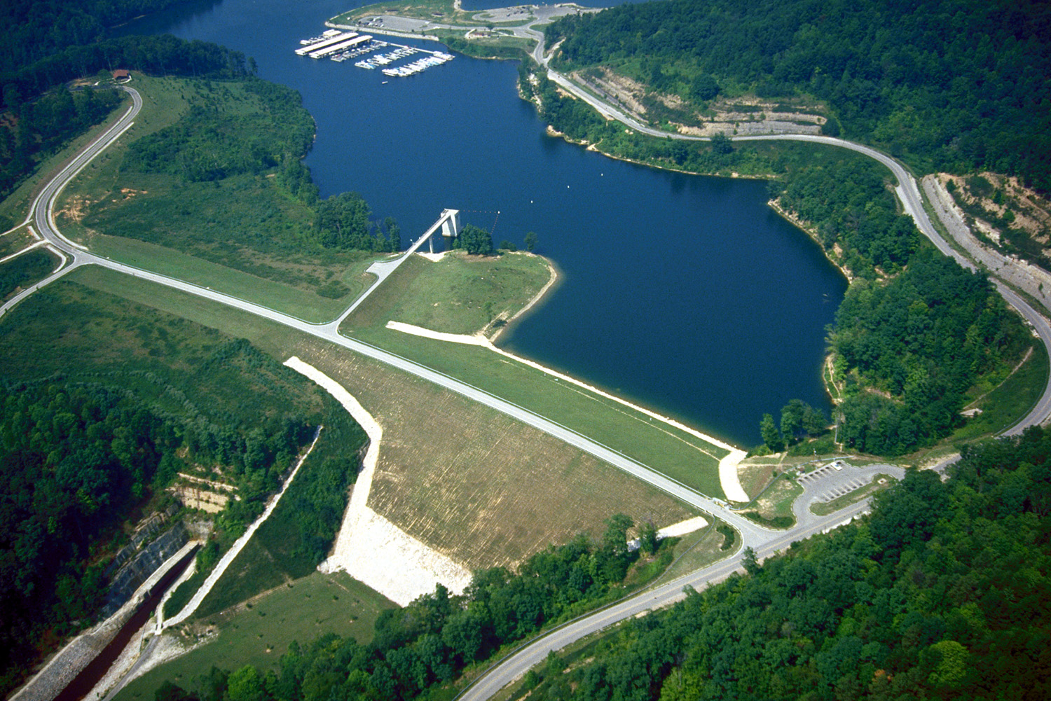 Paintsville Lake and dam and Paintsville Lake State Park, Morgan County, Kentucky, USA. The U.S. Army Corps of Engineers constructed the dam in the 1970s as a flood control project.